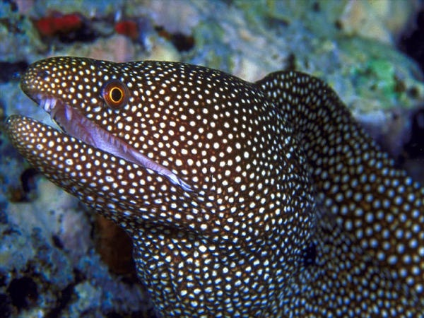 Whitemouth Moral Eel, Andrew Dawson Wildlife Photography